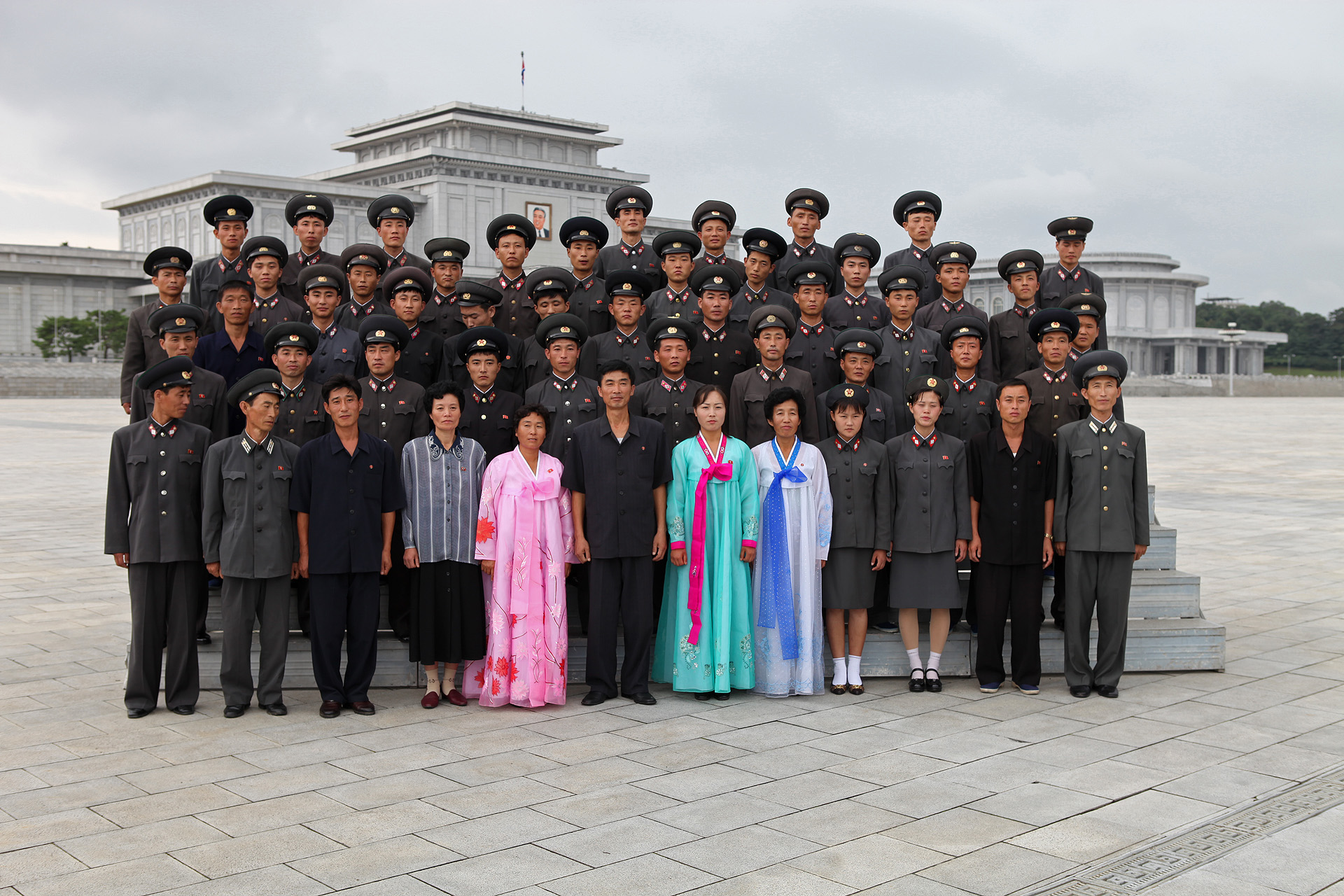 Photo session in front of the Kumsusan Memorial Palace.